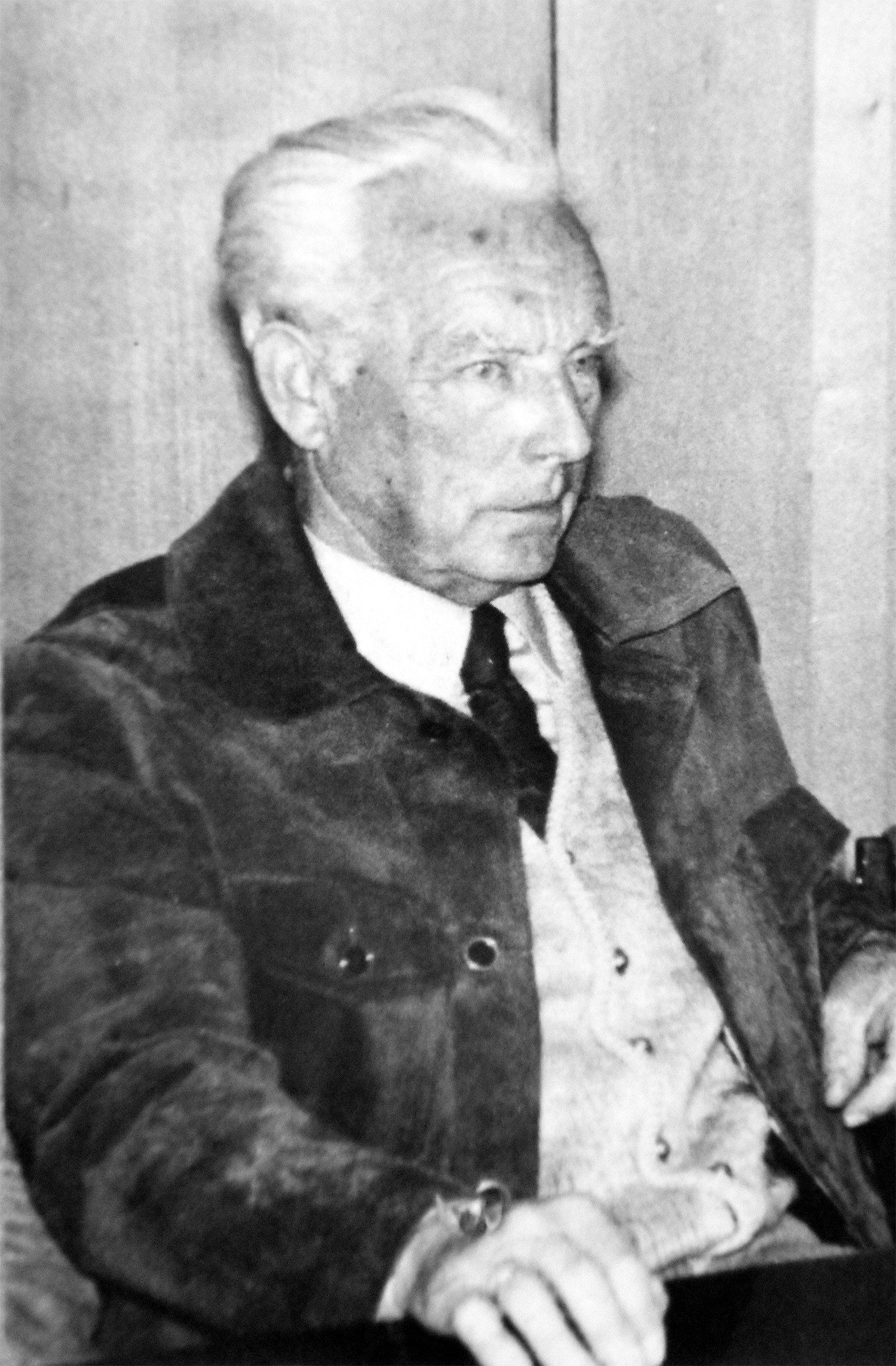 Jak Kroczka, 1939